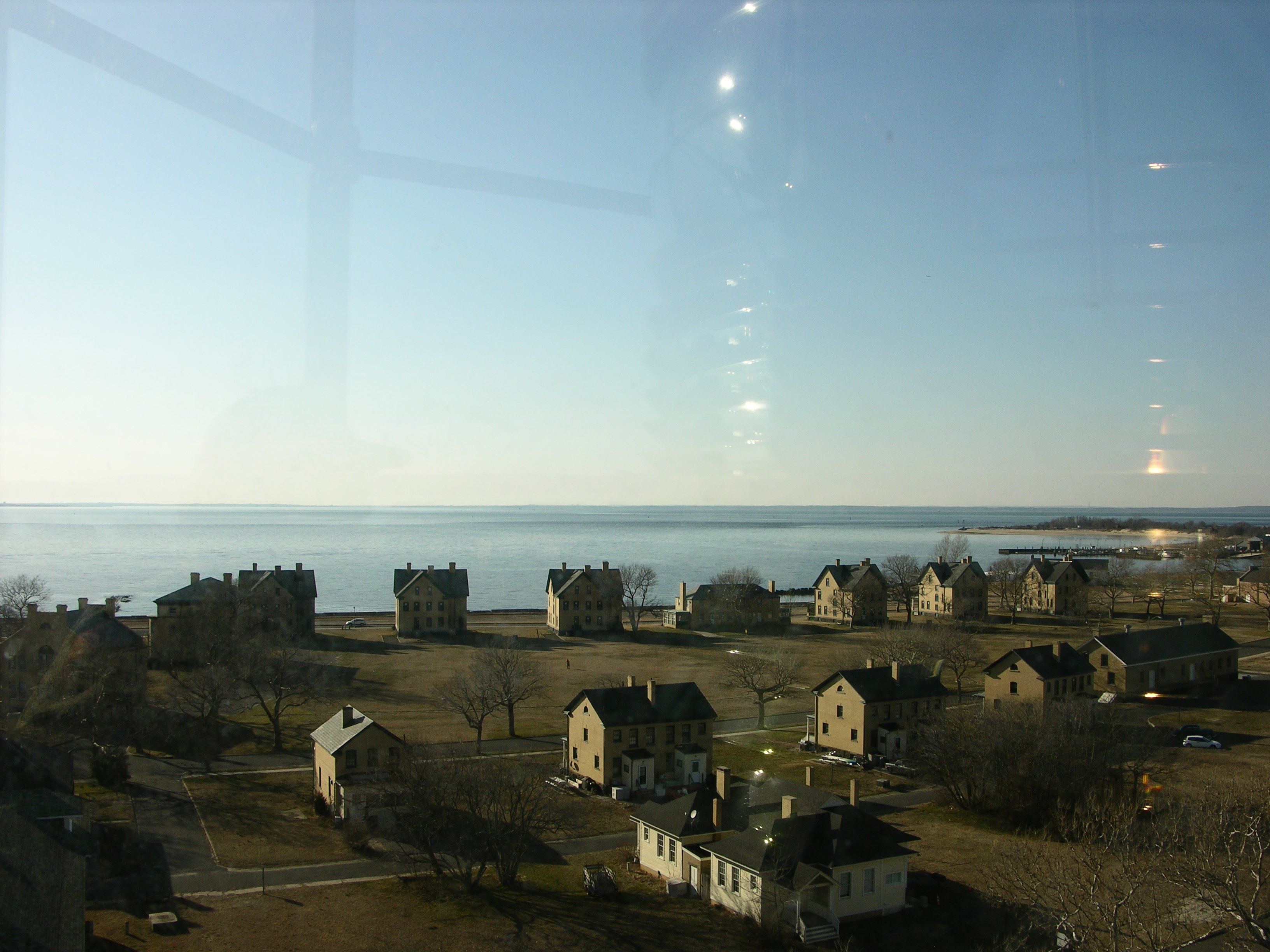 Sandy Hook Light View of Fort Hancock from the top of the lighthouse.